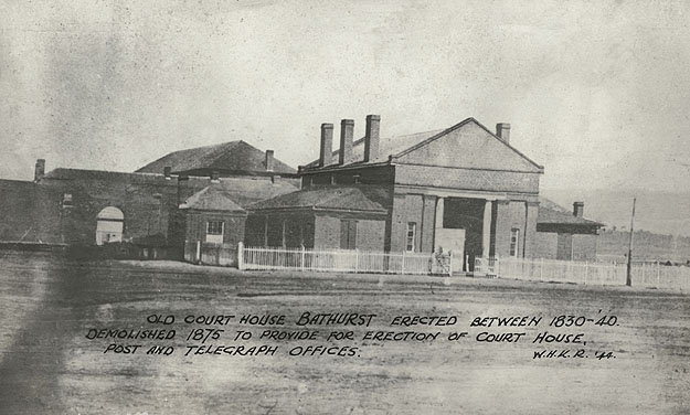 Old Court House at Bathurst Dated: No date Digital ID: 4346_a020_a020000253 Rights: We'd love to hear from you if you use our photos. Many other photos in our collection are available to view and browse on our website using Photo Investigator .